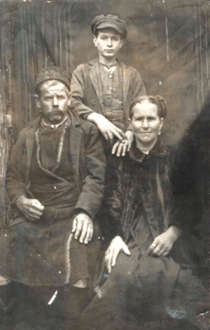 Metodija Andonov-Čento with his father Andon and his mother Zaharija in Prilep